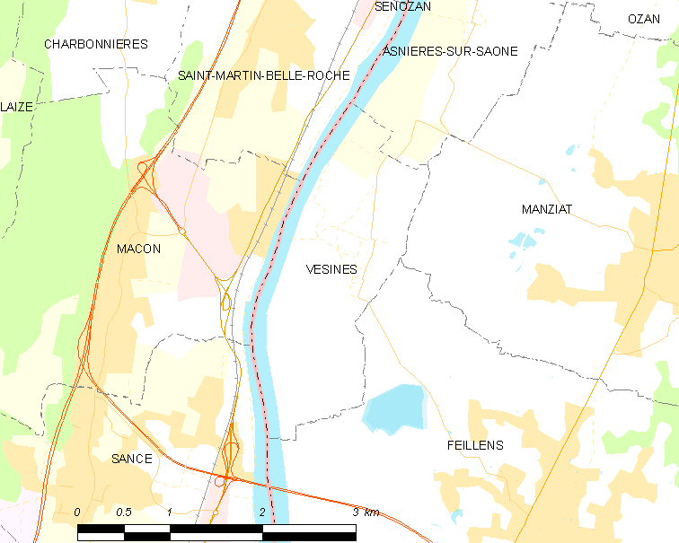 Map of French commune: Vésines Map commune FR insee code 01439.png